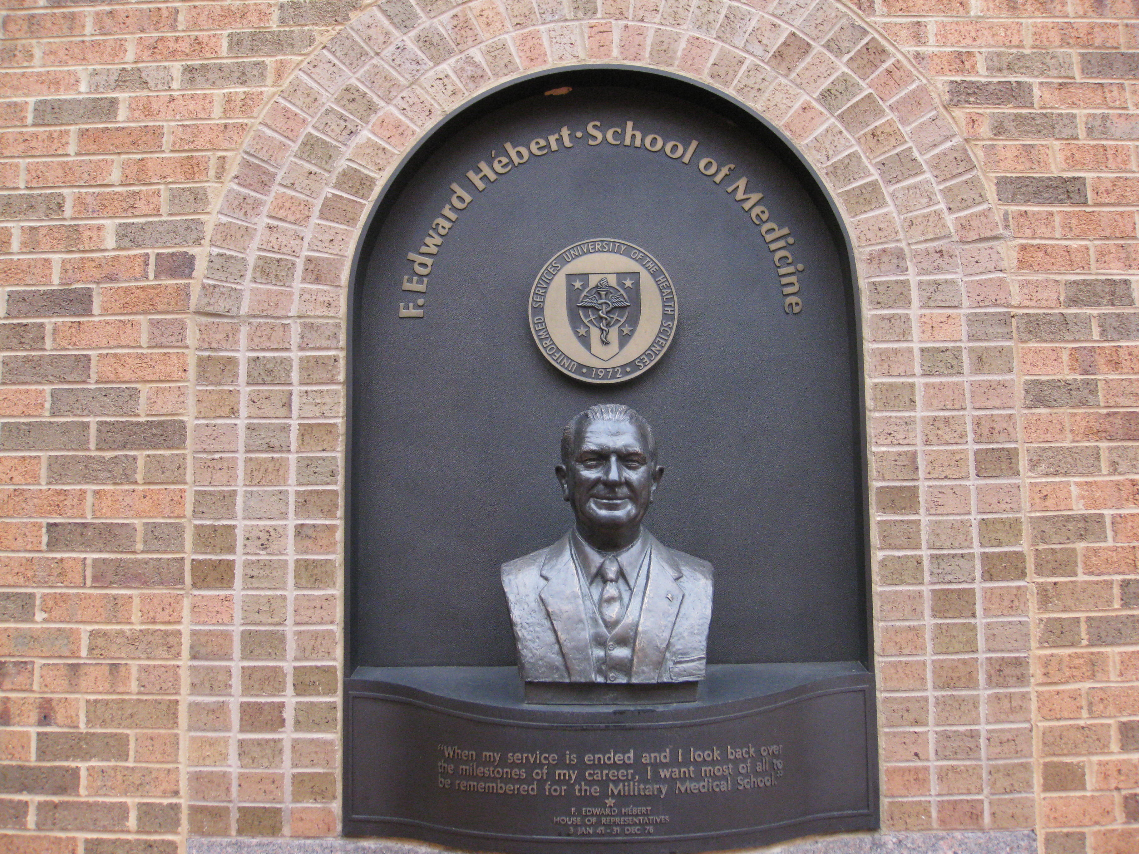 The Department of Defense's medical school, the Uniformed Services University of the Health Sciences teamed up with the Samueli Institute in Alexandria, Va., to offer future military physicians at the college a series of sessions in yoga, acupunture, hypnosis, guided imagery and chiropractic manipulation in Bethesda, Md., on Dec. 7, 2012. Students at the school are primarily active duty uniformed officers in the Army, Navy, Air Force and Public Health Services. The medical college is named after Louisiana Congressman F. Edward Hebert, one of the longest serving members in the U.S. House of Representatives (1941-1977). Hebert was instrumental in the founding of USUHS in 1972. DoD photo by Sandra Lea Abrams